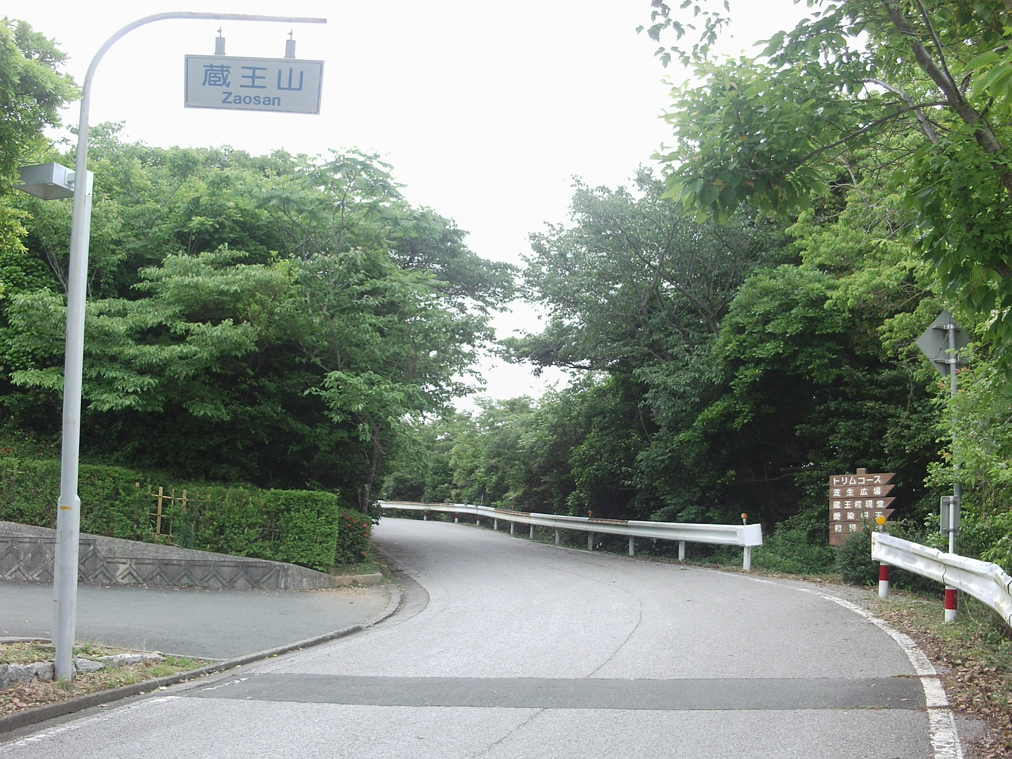 "Zaosan" (Mount Zao), starting point of the Aichi Prefectural Road Route 399 in Taharacho, Tahara City